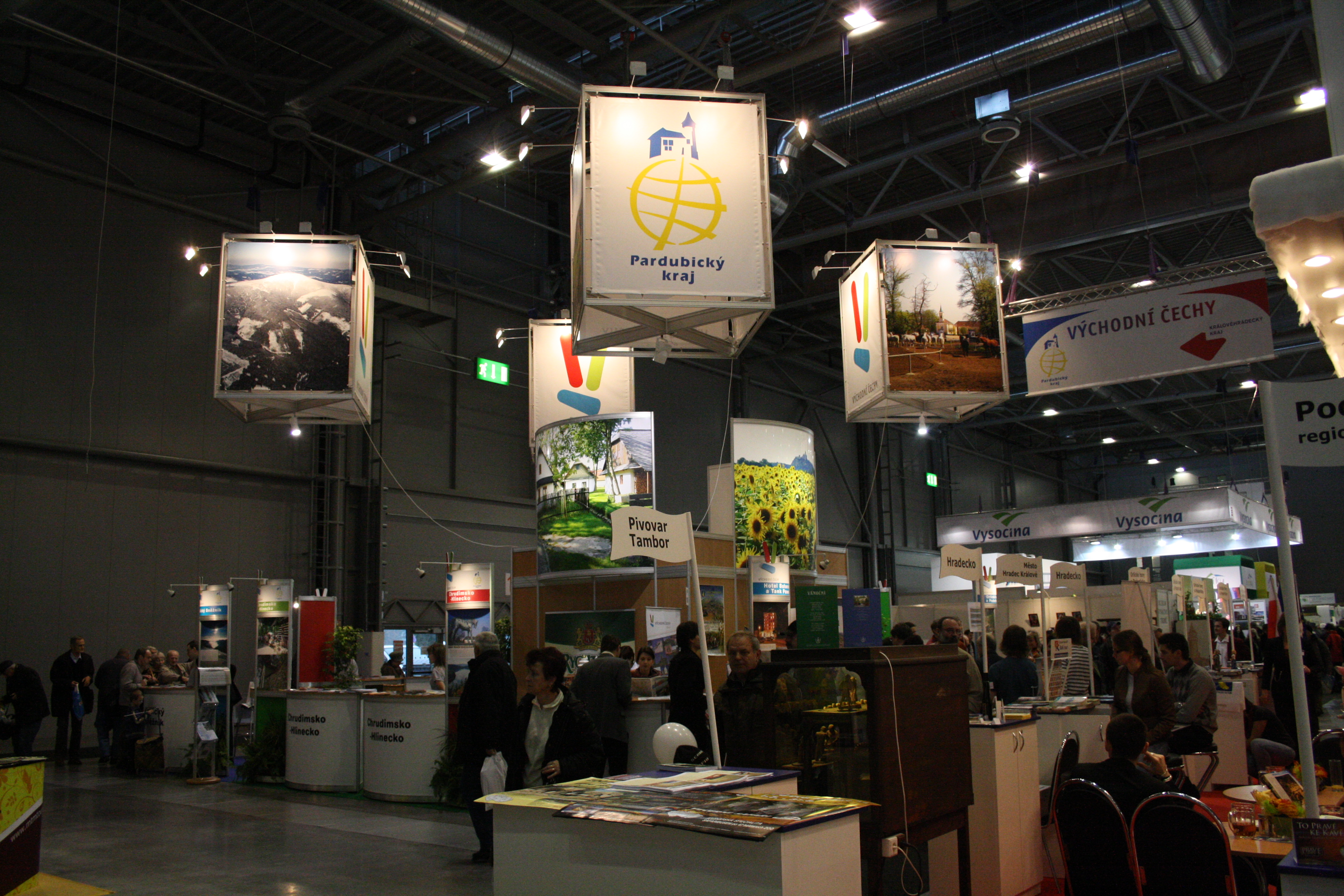 Presentation of various touristic destinations of Czech Republic.